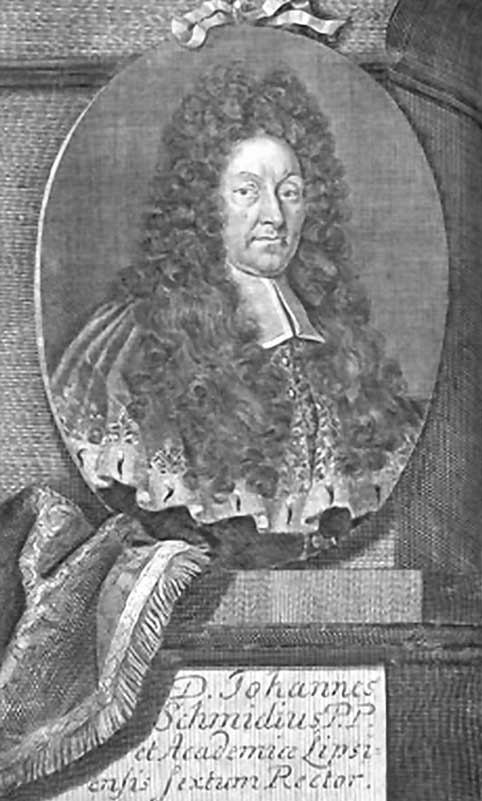 Johann Schmid (1649-1731) Lutheran theologian from Germany